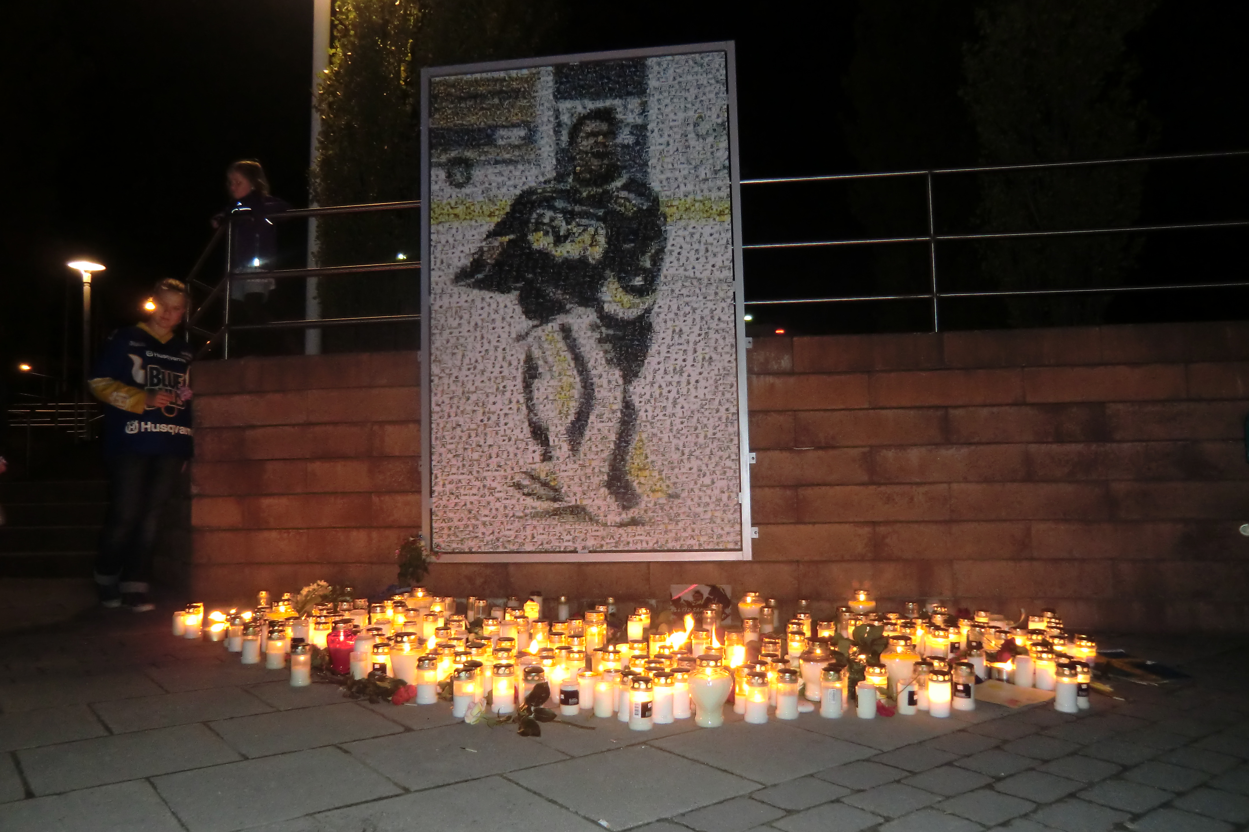 Recollection in mosaik of Stefan Liv outside Kinnarps Arena one year after the plane crash